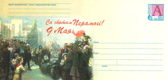 BelPost's envelope of 2001 with a reproduction of a picture of I. A. Davidovich, E. M. Tikhanovich "the Victory Holiday. 1964". 110х220 mm. Circulation is 200000 copies.